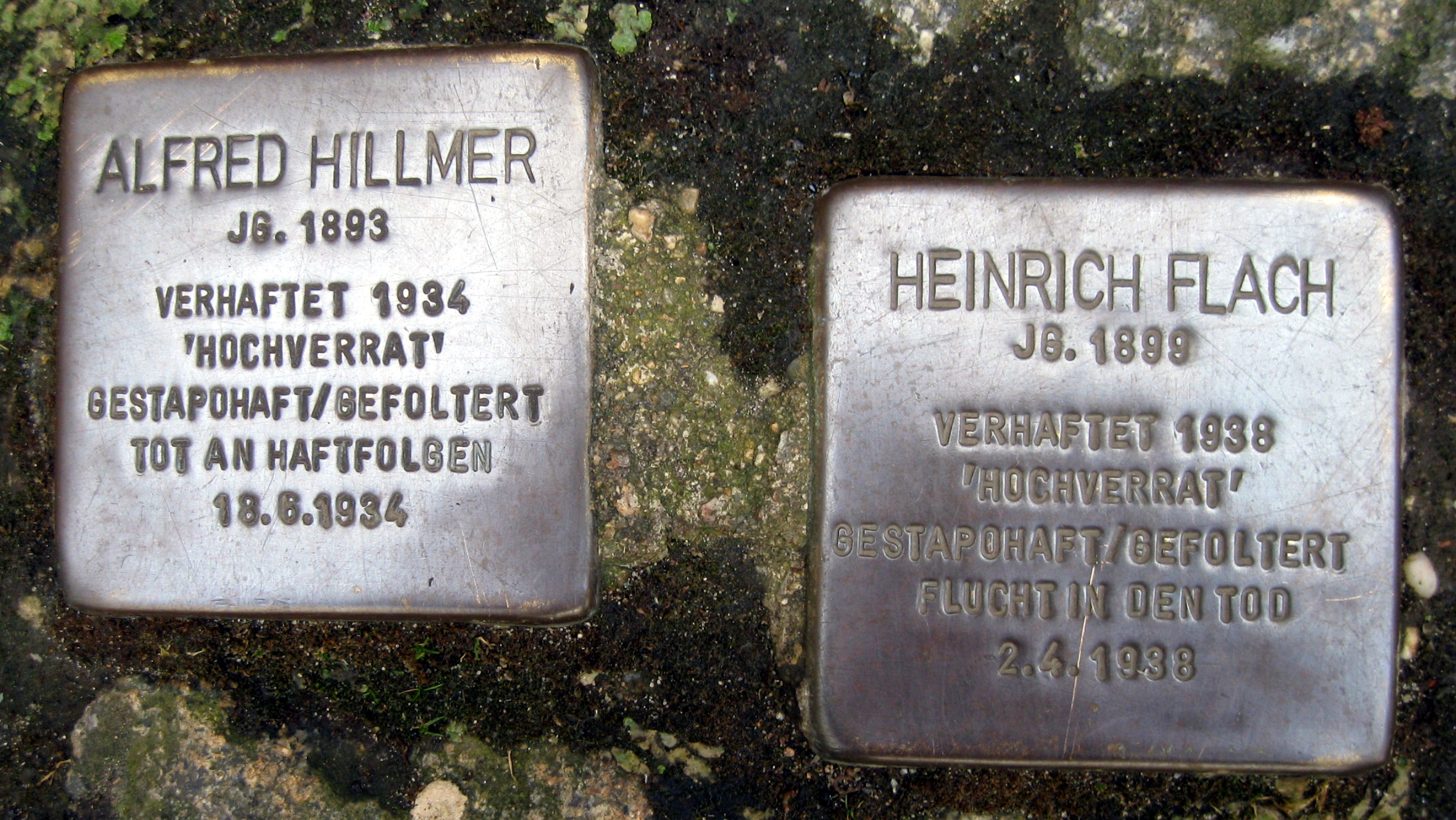 Stolpersteine in Dortmund, Steinstraße 50